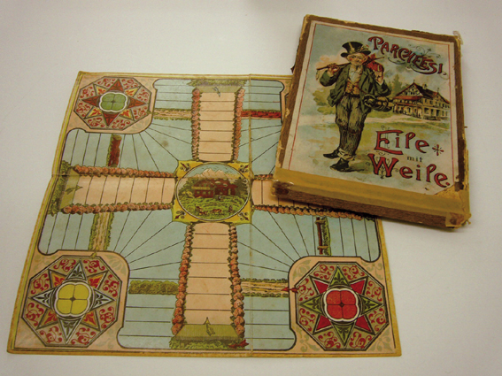 Board of game "Eile mit Weile". ~1900